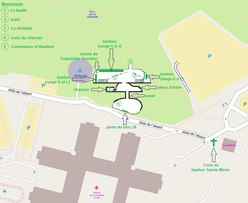 Map of the War grave and Memorial in the citadel of Liège This map may be incomplete, and may contain errors. Don't rely solely on it for navigation.